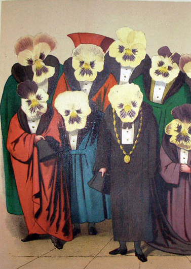 A chromolithiographic picture by Count Franz Graf von Pocci from his book 'Viola Tricolor: In Picture and Rhyme', originally published in the United States in 1876 - the year of Pocci's death.